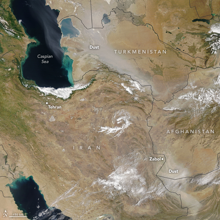 Two anticyclonic dust storms can be seen. The one located to the north in the center follows first a NO direction, then turns towards the N and NE, when the hot air mass with the powder cools and descends clockwise (to the right) as is typical in anticyclonic situations . The one located in the center is also anticyclonic (it also rotates in a clockwise direction) but it is in the incipient phase, that is, it is rising.